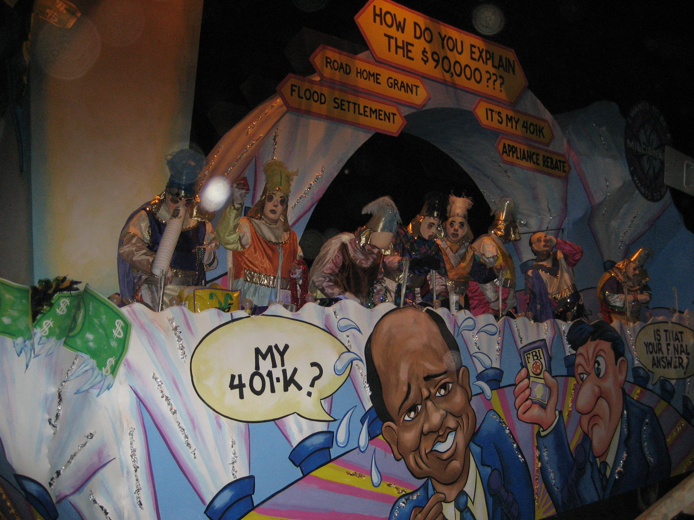 New Orleans Carnival: "Krewe d'Etat" float satirizing congressman William Jefferson.